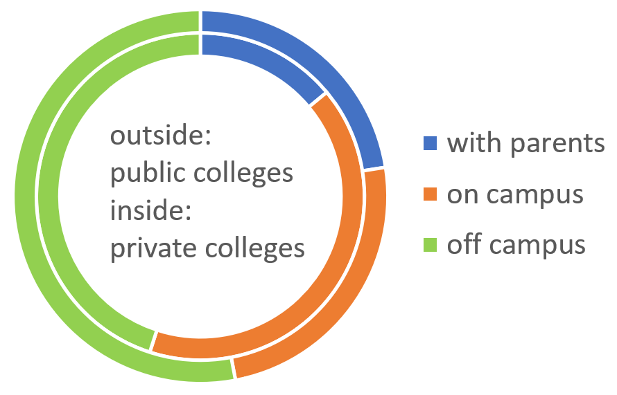 4-year schools only; public means public non-profit; data